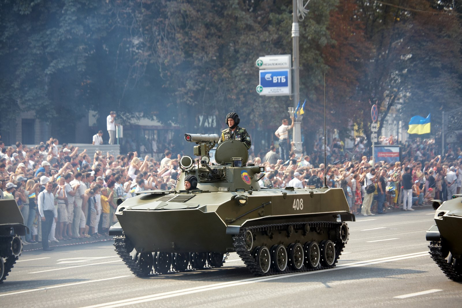 Ukrainian BMD-2 tank during the Independence Day parade in Kiev, Ukraine in 2008.